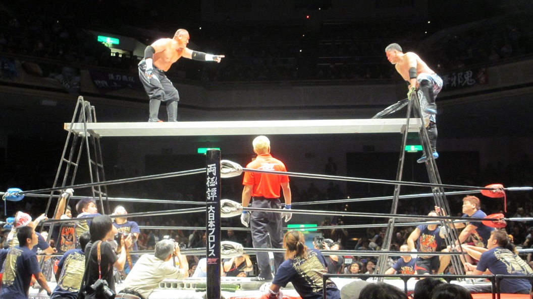 Scaffold Deathmatch. Jul 24 2016, BJW Ryougoku Sumo Hall. BJW Deathmatch Heavyweight Championship. Ryuji Ito(Champion) vs Kankuro Hoshino(Charenger).